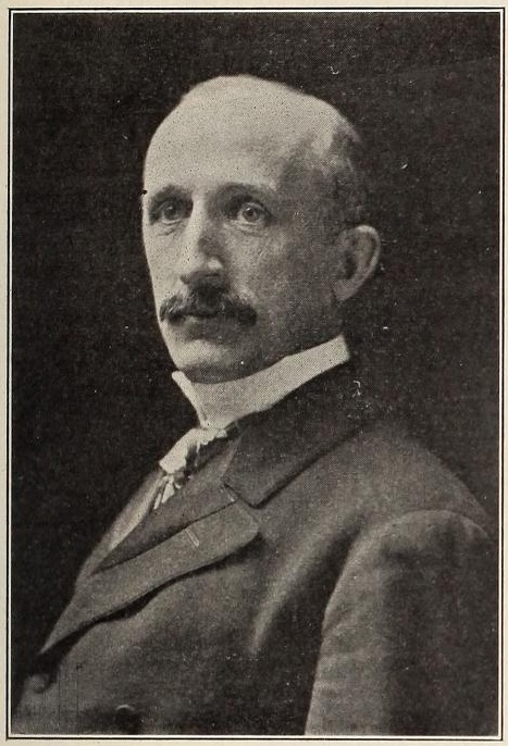 Edward Easton later in life. From Talking Machine World, April 1909.